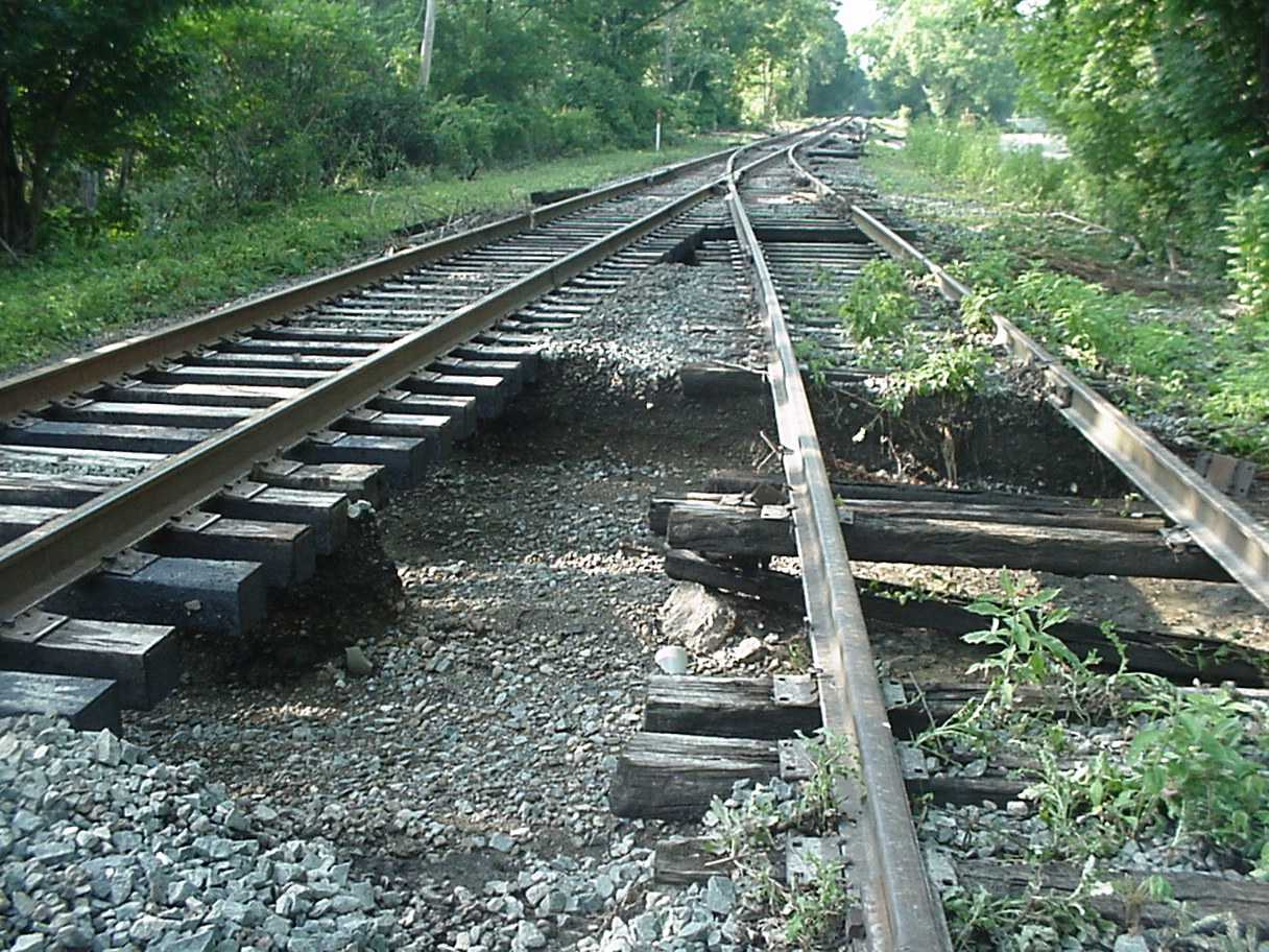 Flood damage to Cuyahoga Valley Scenic Railroad tracks north of Bath Road